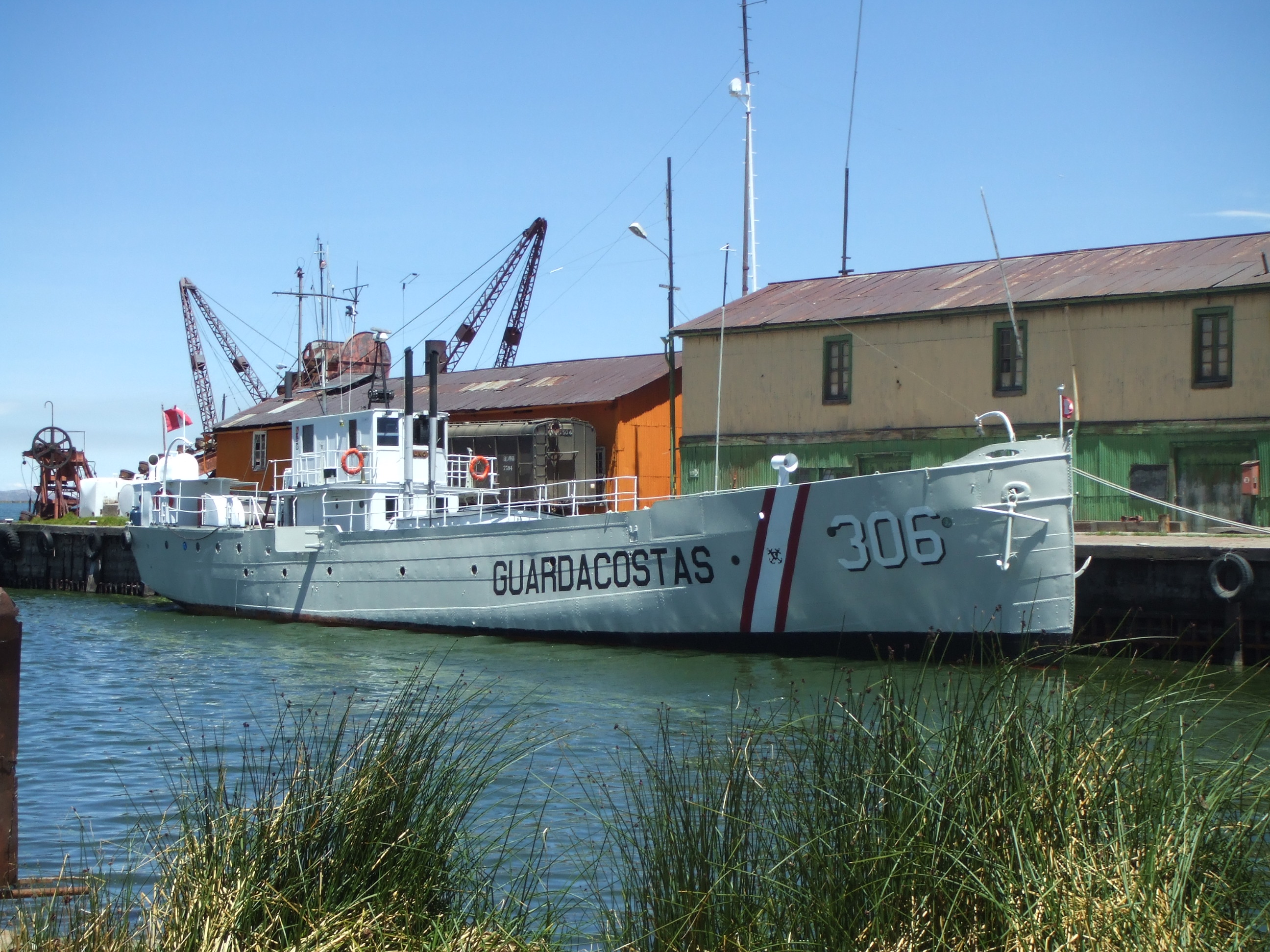 The 140 ton Peruvian Coastguard patrol vessel "Puno" (ex-"Yapari"), sister ship to the "Yavari" and still in commission in 2007! Built by the Thames Iron Works, London in 1861-62 under contract from the James Watt Foundary, Birmingham as a gunboat for the Peruvian Navy with 2X24 pdrs for use on Lake Titicaca. Dismantled and shipped to Arica (then part of Peru), sent by train to Tacna and then on mules to Puno on Lake Titicaca and re-erected. Fought in the War of the Pacific 1879-83 between Peru, Bolivia and Chile. Originally had a Watt steam engine. At Puno11/07.